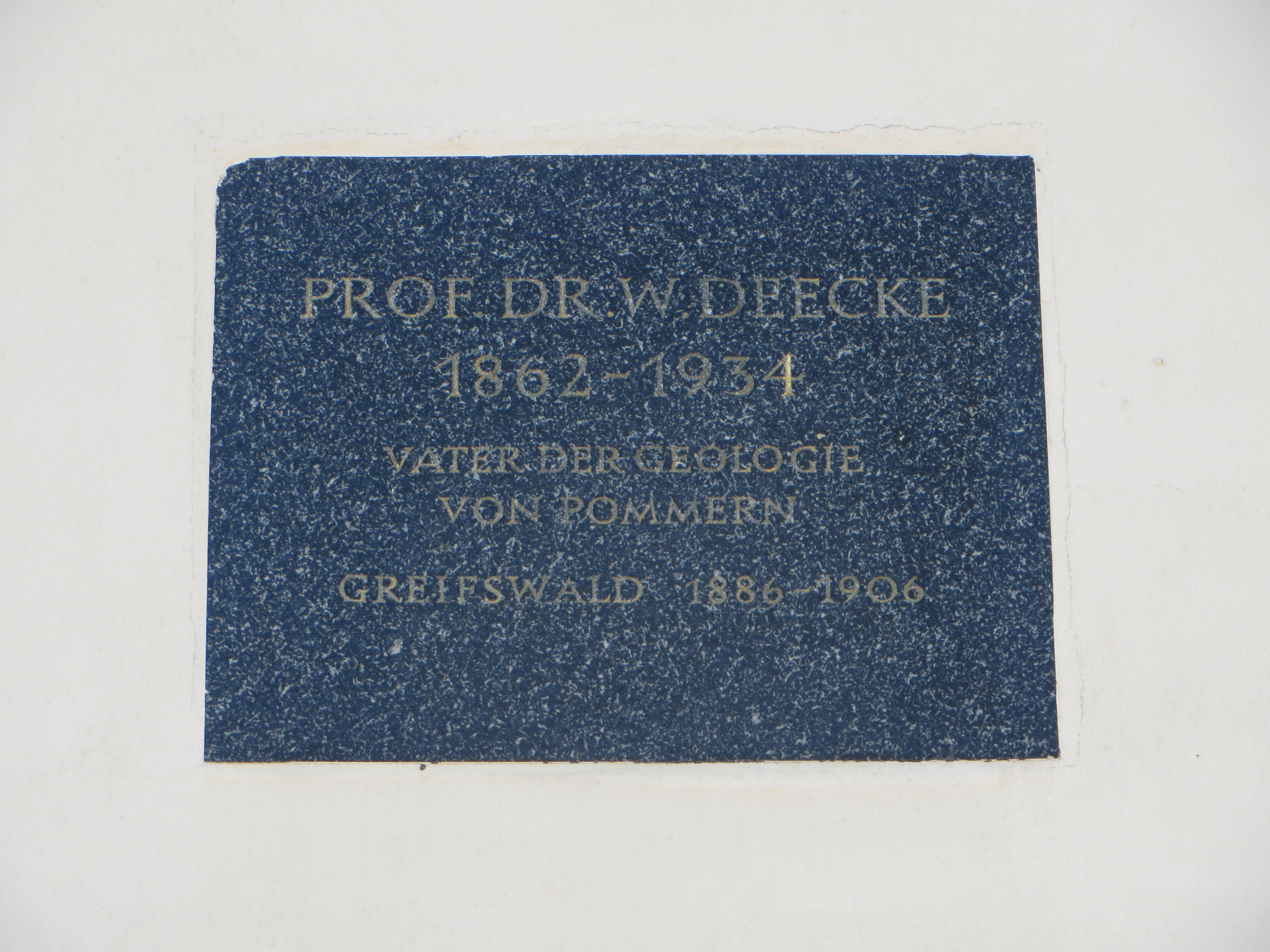 Gützkower Straße 26 in Greifswald: Plaque commemorating Wilhelm Deecke (Geologe)